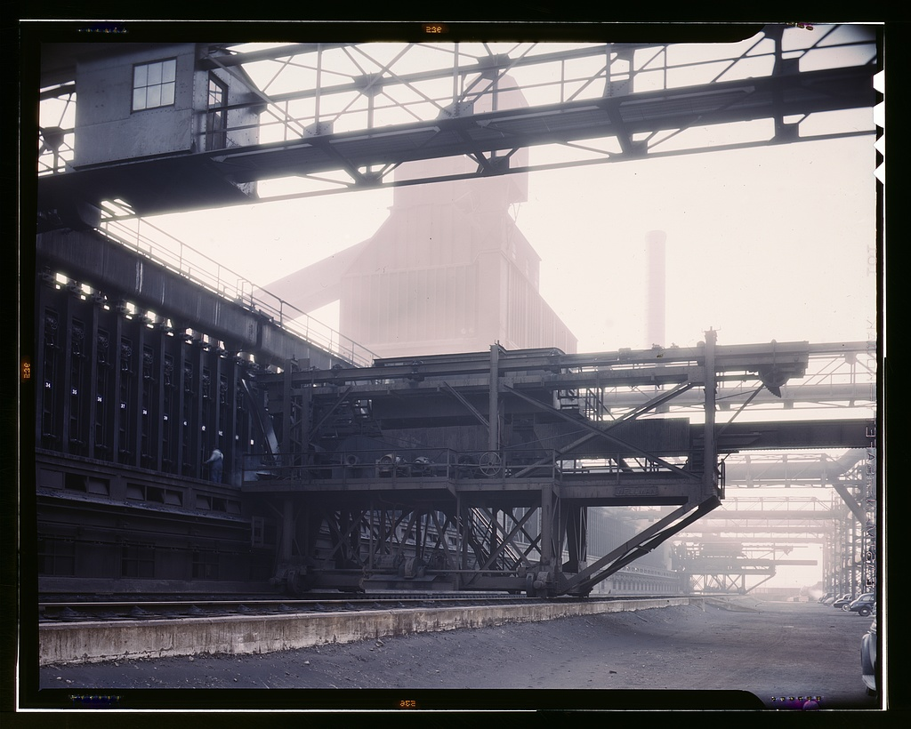 Title: Hanna furnaces of the Great Lakes Steel Corporation, Detroit, Mich. Coal pusher apparatus with coal storage